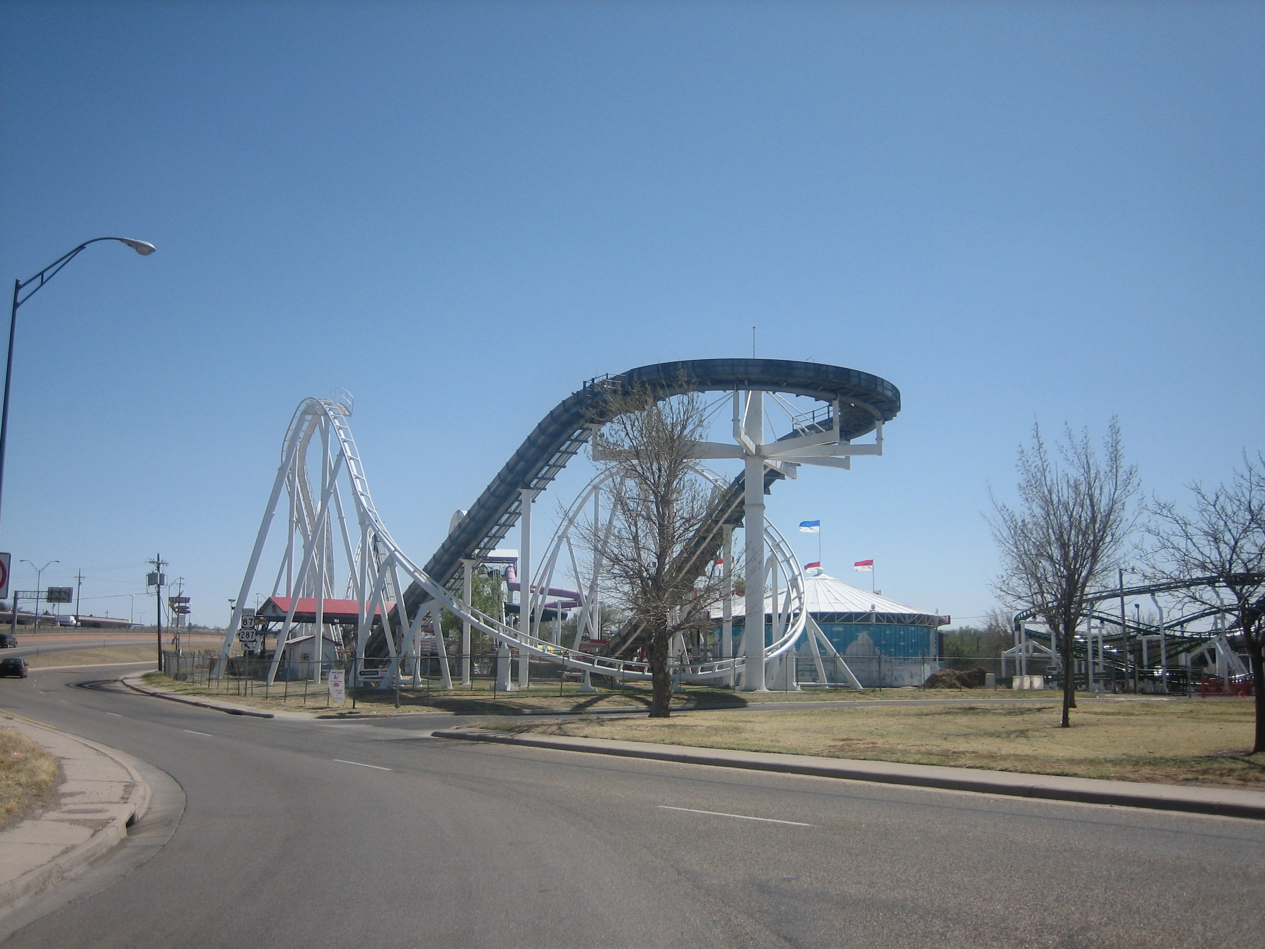 I took photo on April 3, 2008/Billy Hathorn (talk) 02:20, 27 June 2008 (UTC)